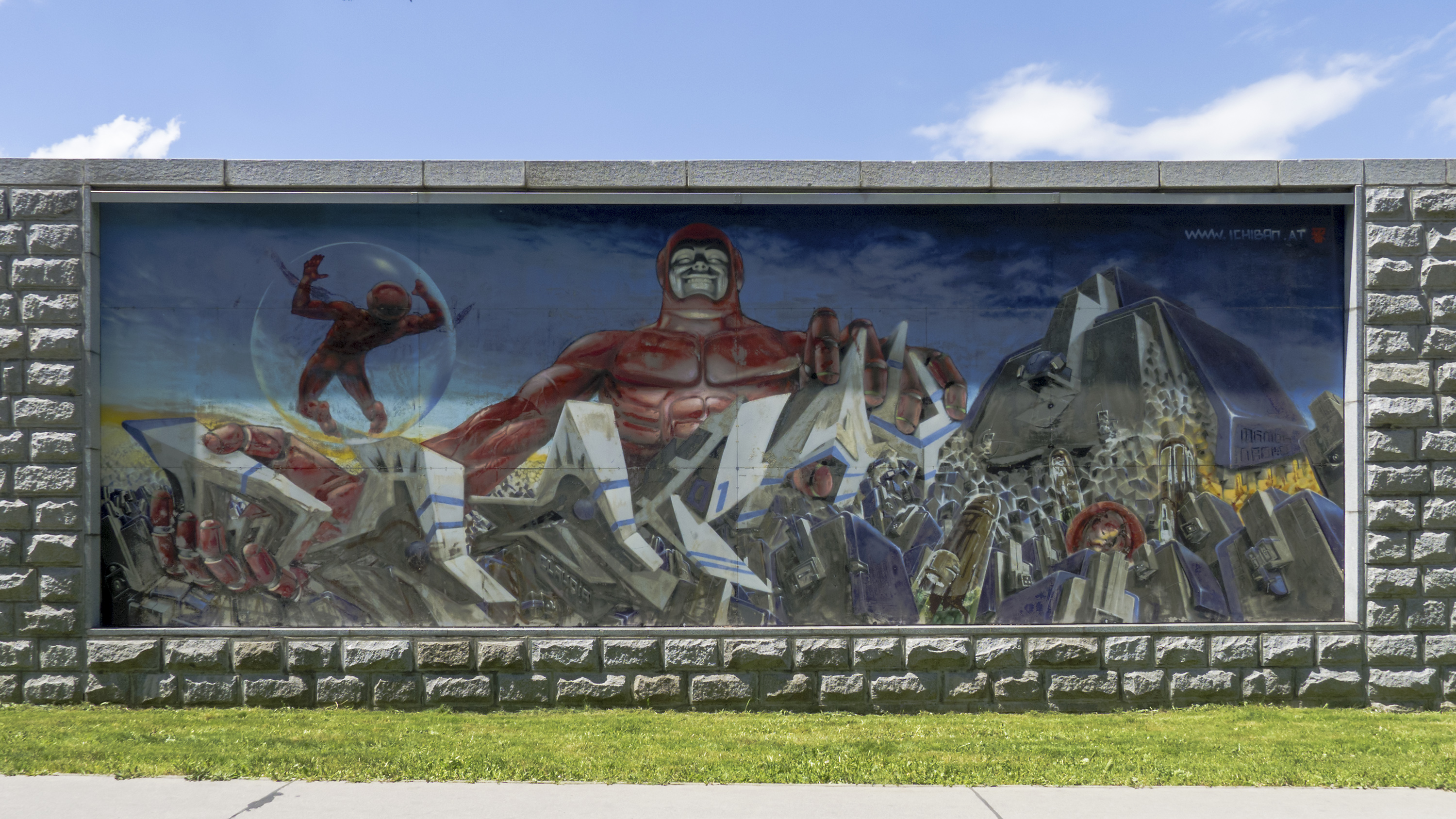 Underground station Bahnhof Wien Ottakring in Vienna